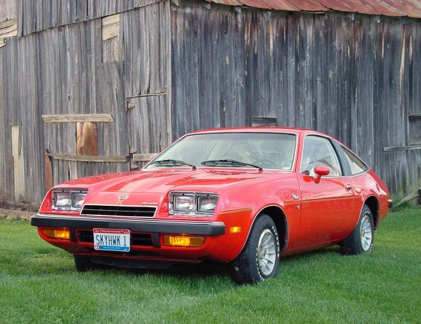 1975 Buick Skyhawk